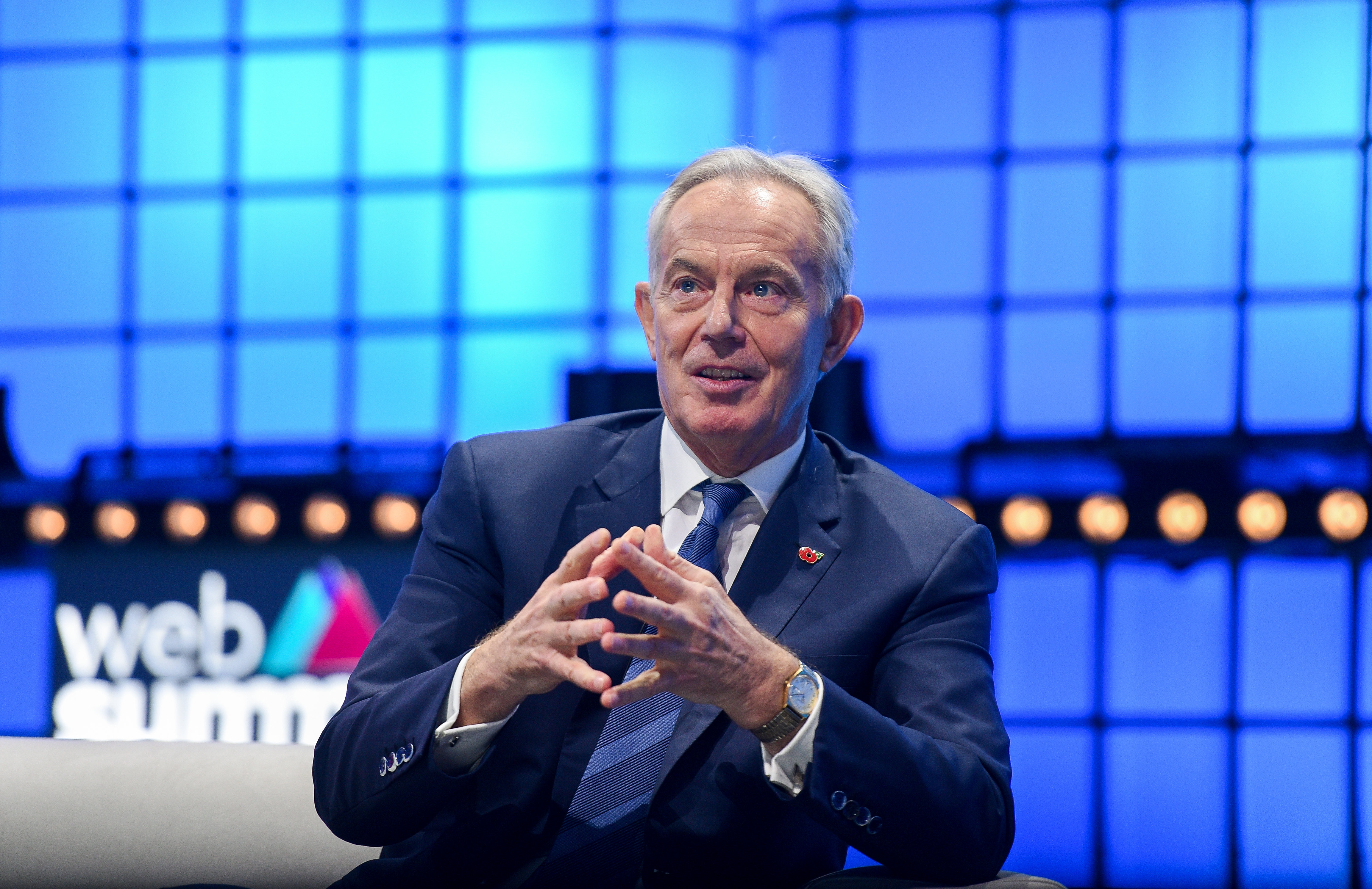 6 November 2019; Tony Blair, Executive Chairman of the Institute for Global Change, Former Prime Minister of Great Britain and Northern Ireland, Tony Blair Global Institute, on Centre Stage during day two of Web Summit 2019 at the Altice Arena in Lisbon, Portugal. Photo by Cody Glenn/Web Summit via Sportsfile